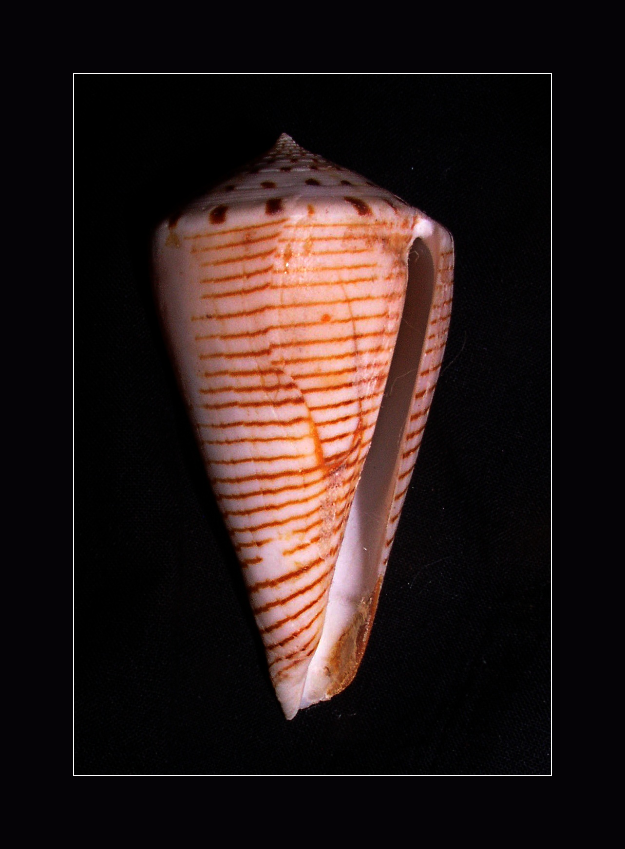 Hirase's Cone - Conus hirasei from the Philippines